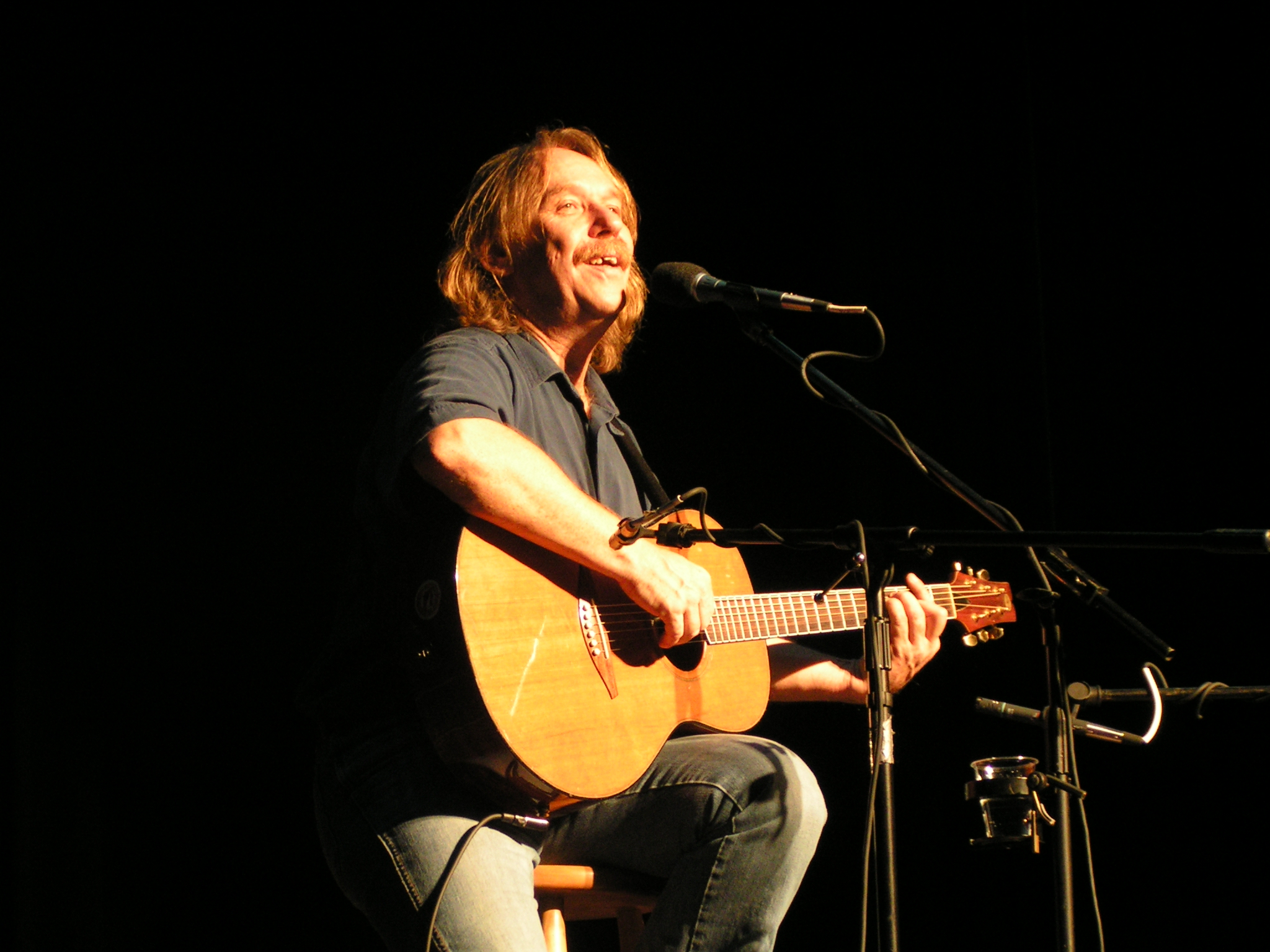 Jaromír Nohavica, a concert in Toronto, Canada.